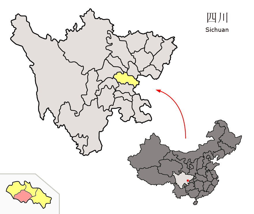 Location of Yanjiang District (pink) and Ziyang Prefecture (yellow) within Sichuan province of China Map drawn in october 2007 using various sources, mainly : Sichuan province administrative regions GIS data: 1:1M, County level, 1990 Sichuan Counties map from